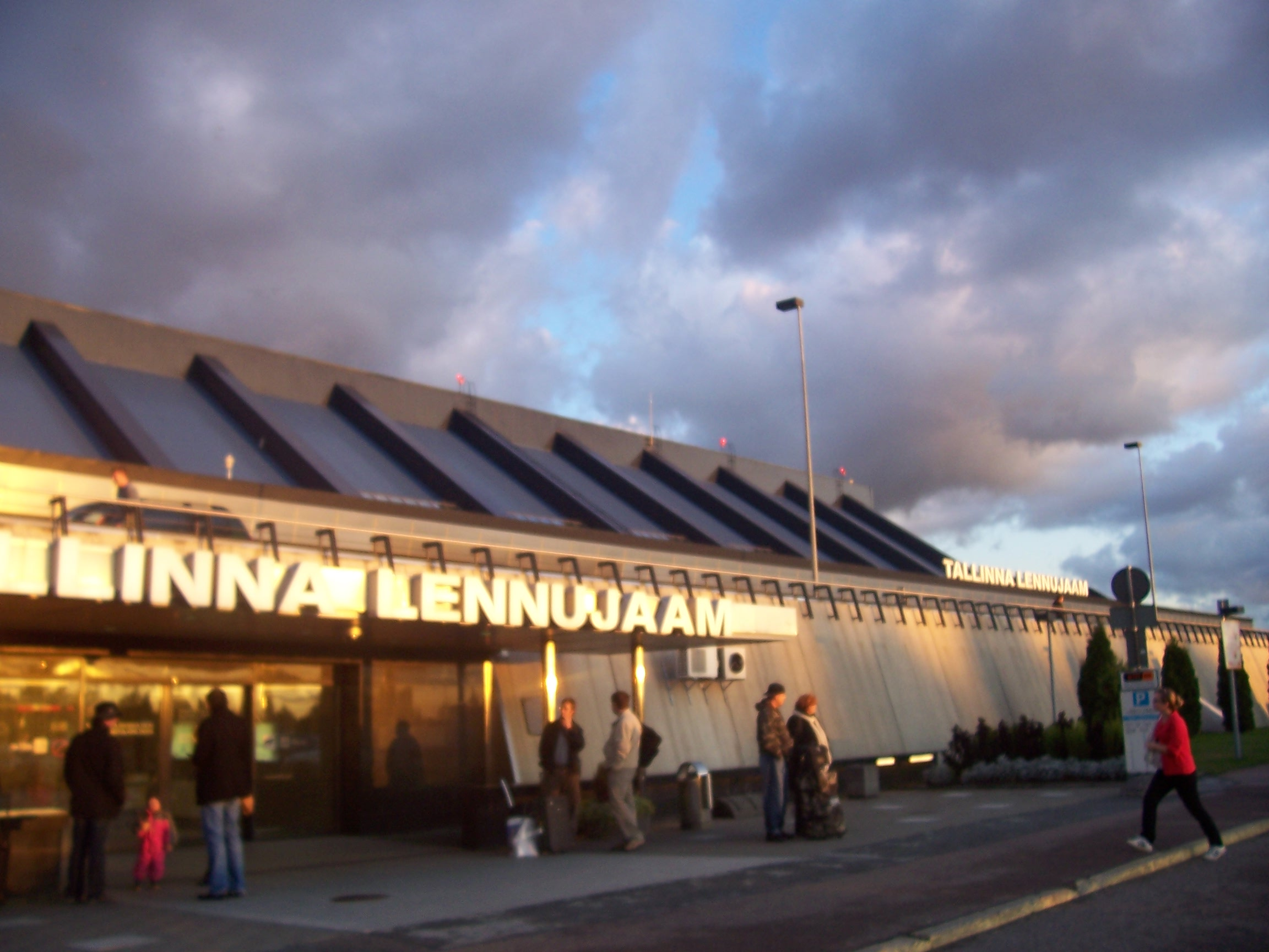 The Entrance of the Airport of Tallinn